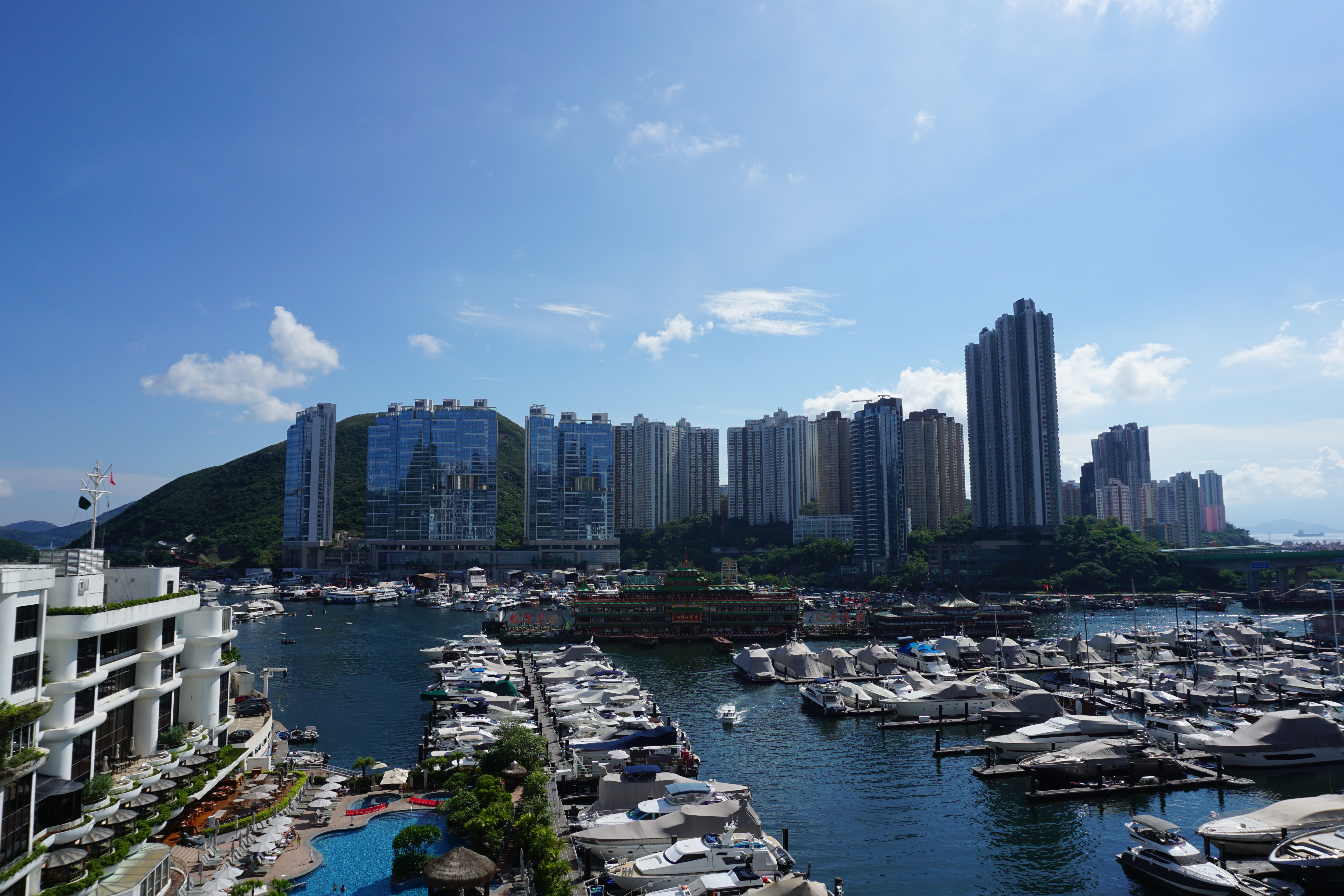 Ap Lei Chau in Southern District, Hong Kong.